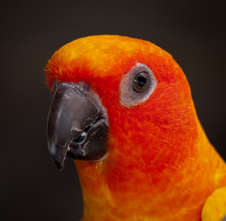 A Sun Parakeet (also known as Sun Conure) in Gatorland, Florida, USA.